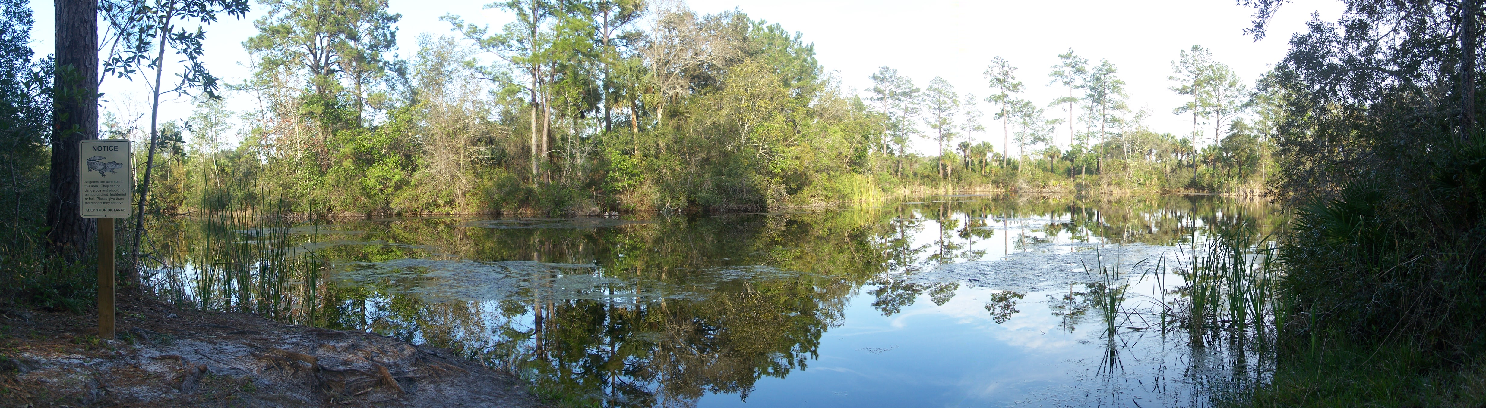 Panorama view of Sand Lake, in Wekiwa Springs State Park in Apopka, Florida